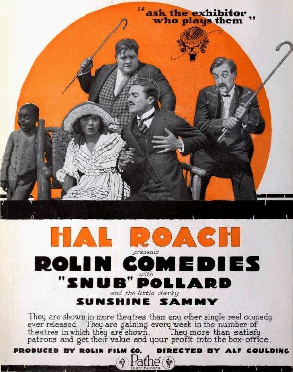 Advertisement for Rolin Comedies short films with Snub Pollard and Ernie Morrison (here listed as "the little darky Sunshine Sammy"), from the insert after page 10 of the September 4, 1920 Exhibitors Herald.